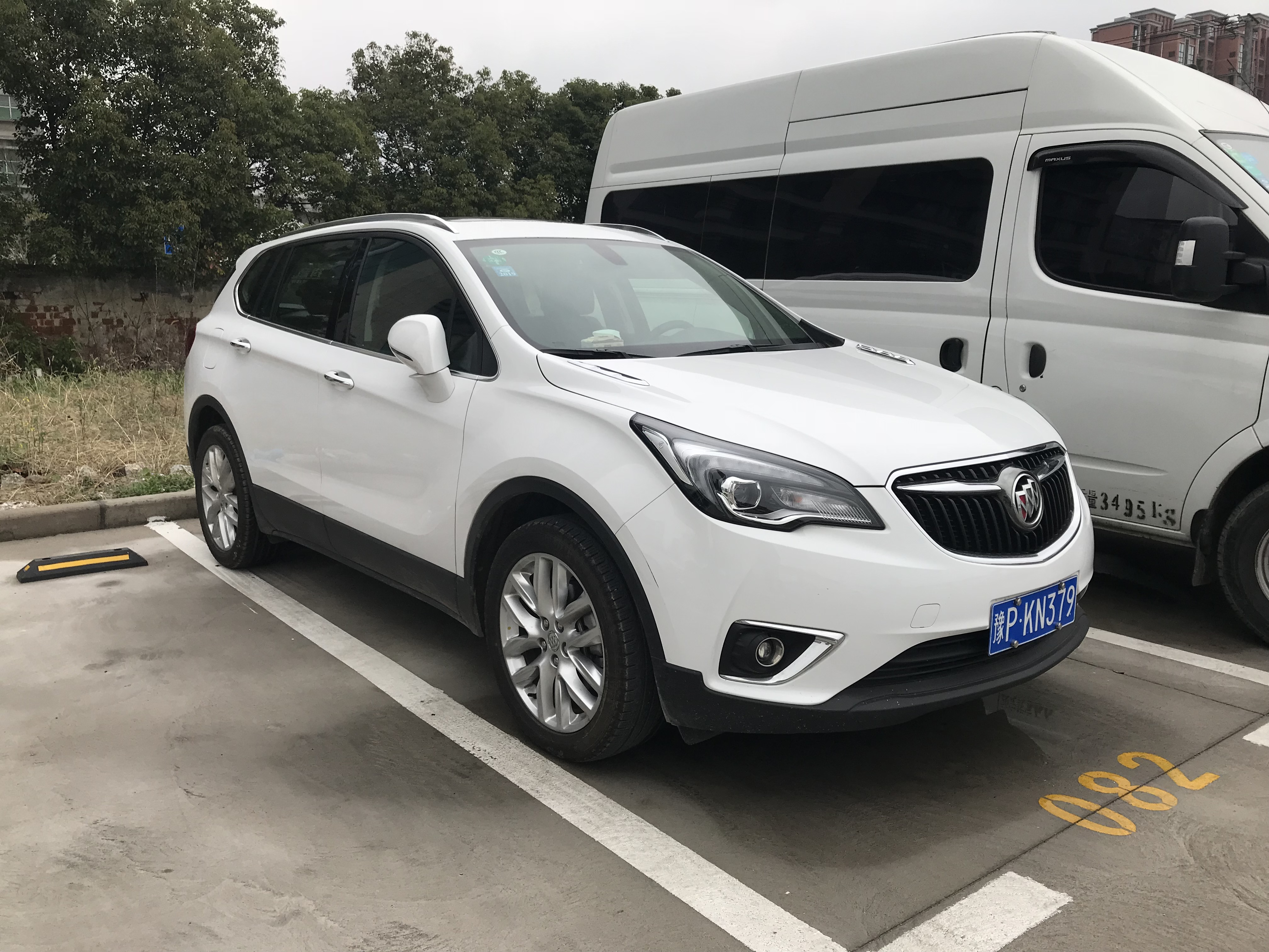 Buick Envision facelift